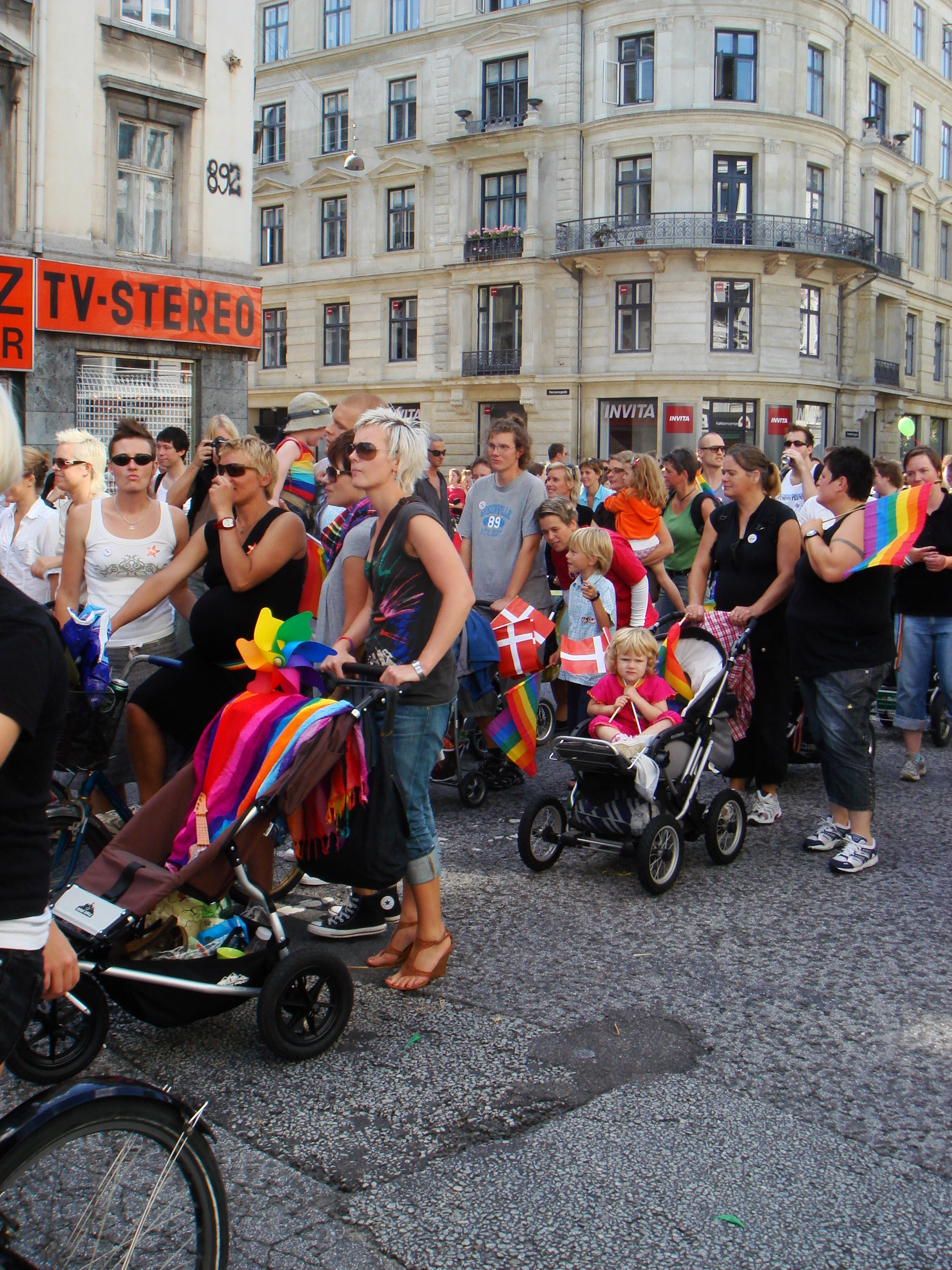 Copenhagen gay pride 2008. Picture by Stefano Bolognini.